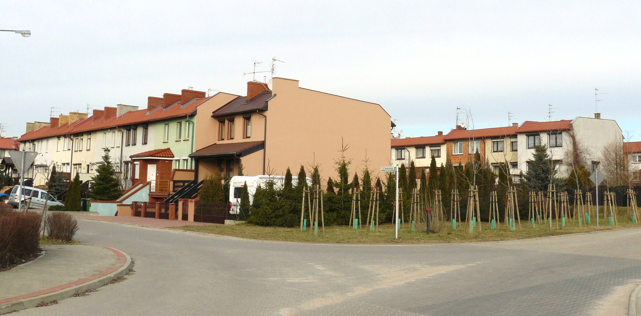 Rubinowe District in Przezmierowo.